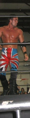 Picture of Neil Faith from Independant Wrestling Show.